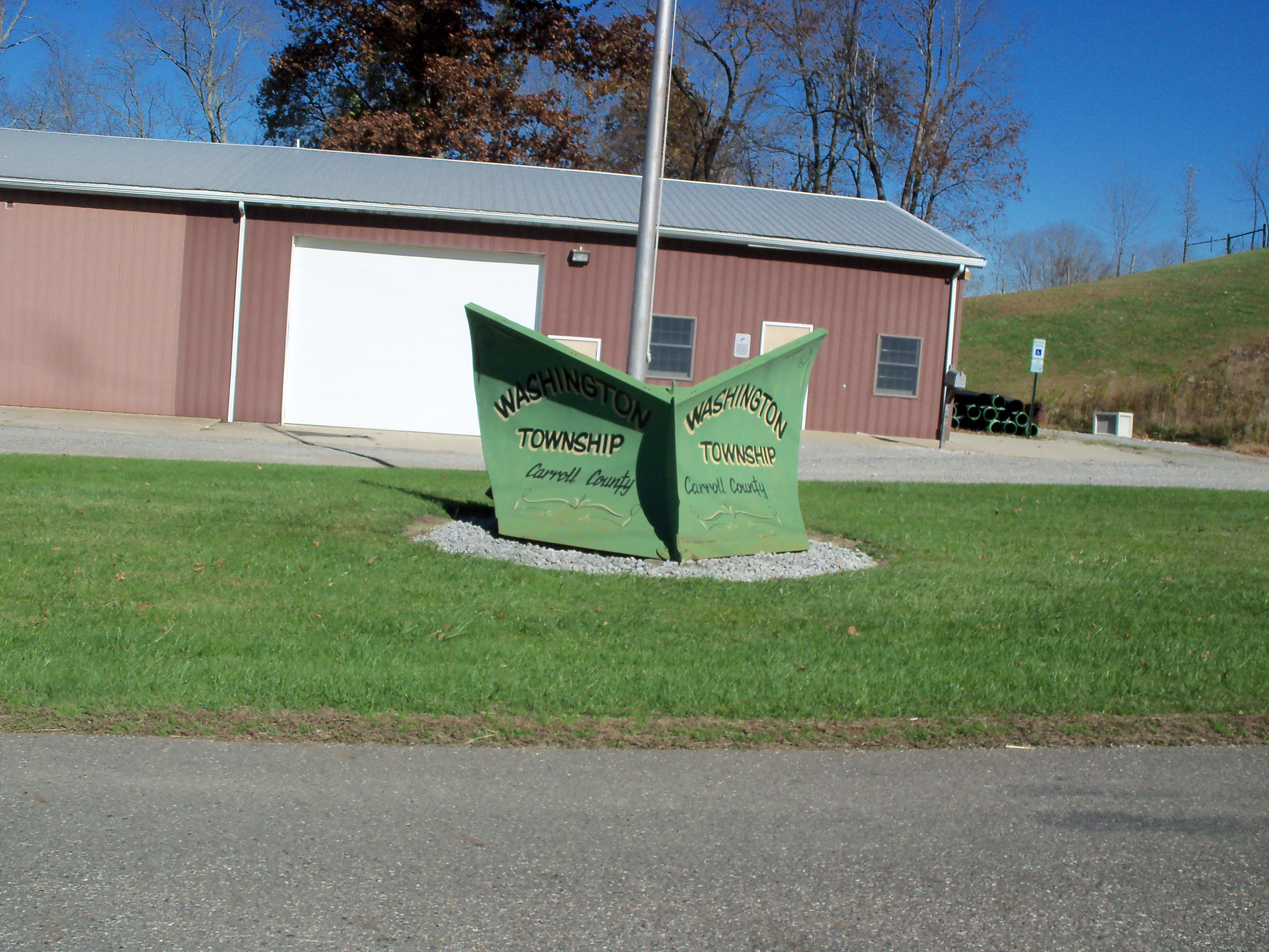 This building is the meeting house and garage for Washington Township, Carroll County, Ohio.